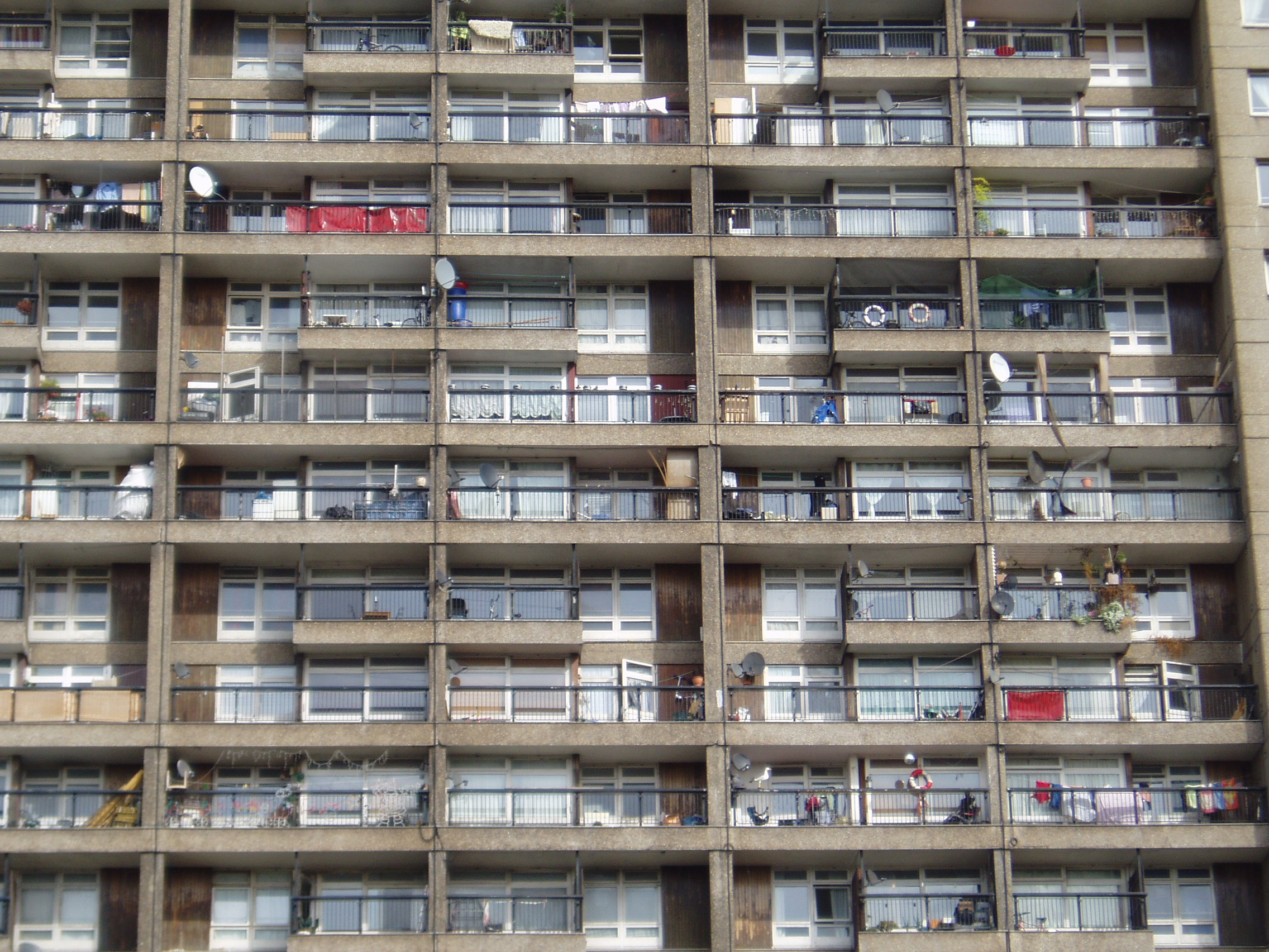 The Trellick Tower (1968-72) by Erno Goldfinger Photo taken on a walk around North Kensington with the Twenteith Century Society on 4th October 2008, led by Suzanne Waters.